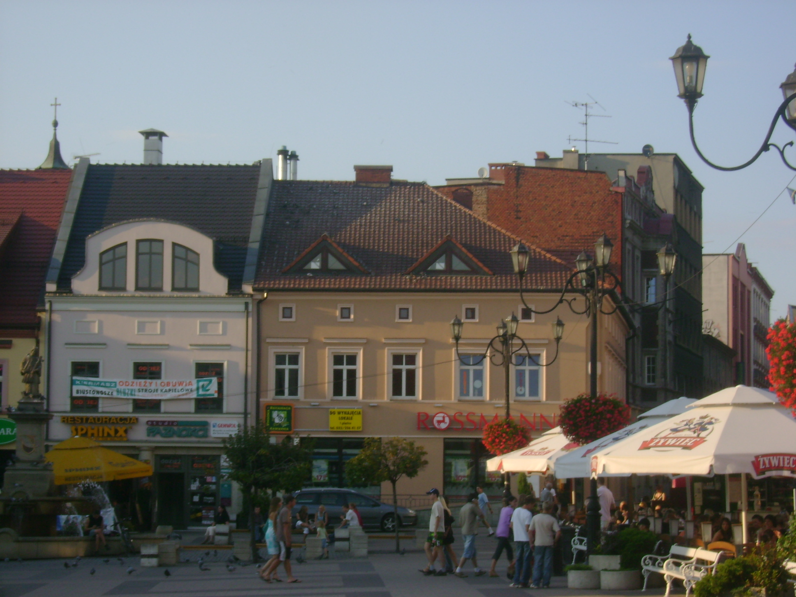 Main Market Square in Rybnik, southern Poland